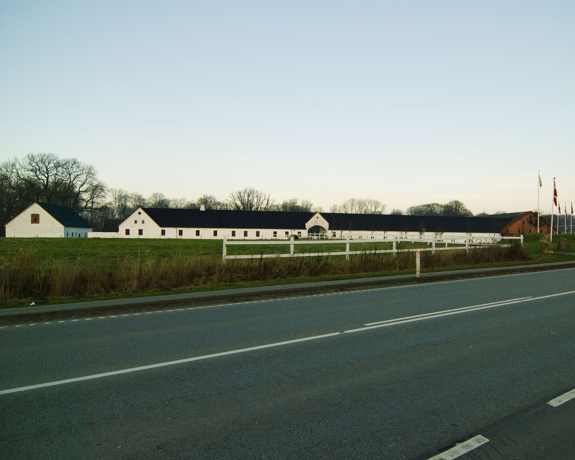 The 17th century manor house Knivholt, just east of Frederikshavn